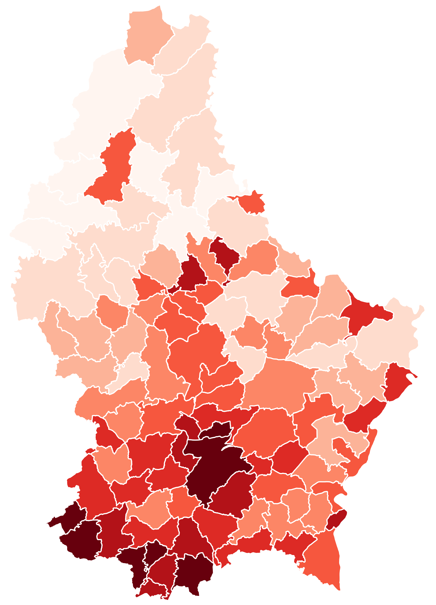 A map of communes of Luxembourg after mergers of 2006-01-01, colour-coded by population density. Population density is denoted by eight different shades of red; in order of increasingly darker shades, the lower bounds (in people/km²) are: 0, 35, 70, 100, 150, 250, 500, 1000.